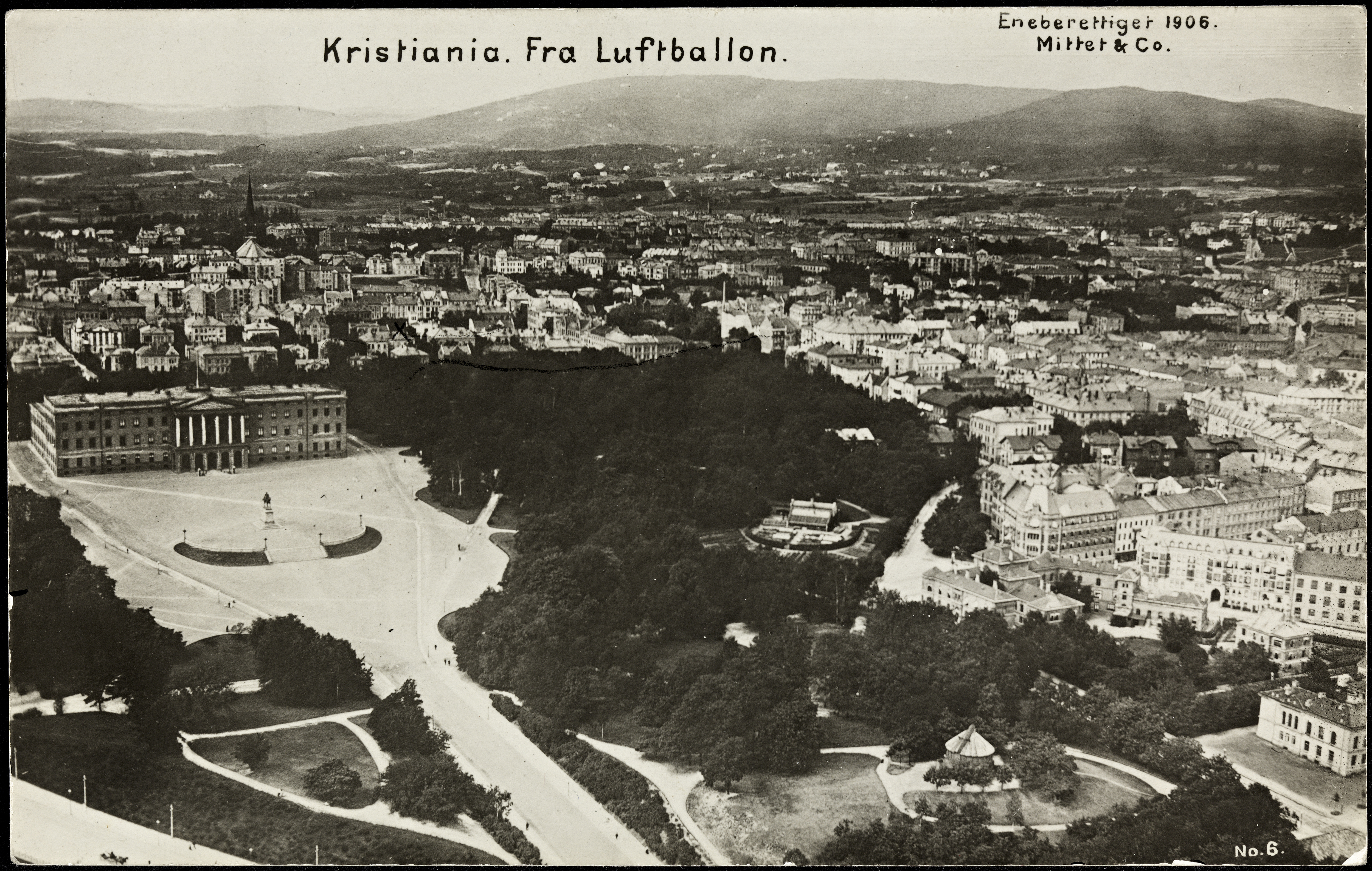 Beskrivelse / Description: Postkort / Postcard. Flyfoto / Aerial photography. Utsikt mot slottet, slottsparken, Briskeby og Frogner. Dato / Date: 1906 Sted / Place: Oslo Fotograf / Photographer: Fredrik Blom-Olsen Utgiver / Publisher: Mittet & Co. Digital kopi av original / Digital copy of original: s/h postkort, sølvgelatin Eier / Owner Institution: Nasjonalbiblioteket / National Library of Norway Lenke / Link: Bildesignatur / Image Number: bldsa_PK05450